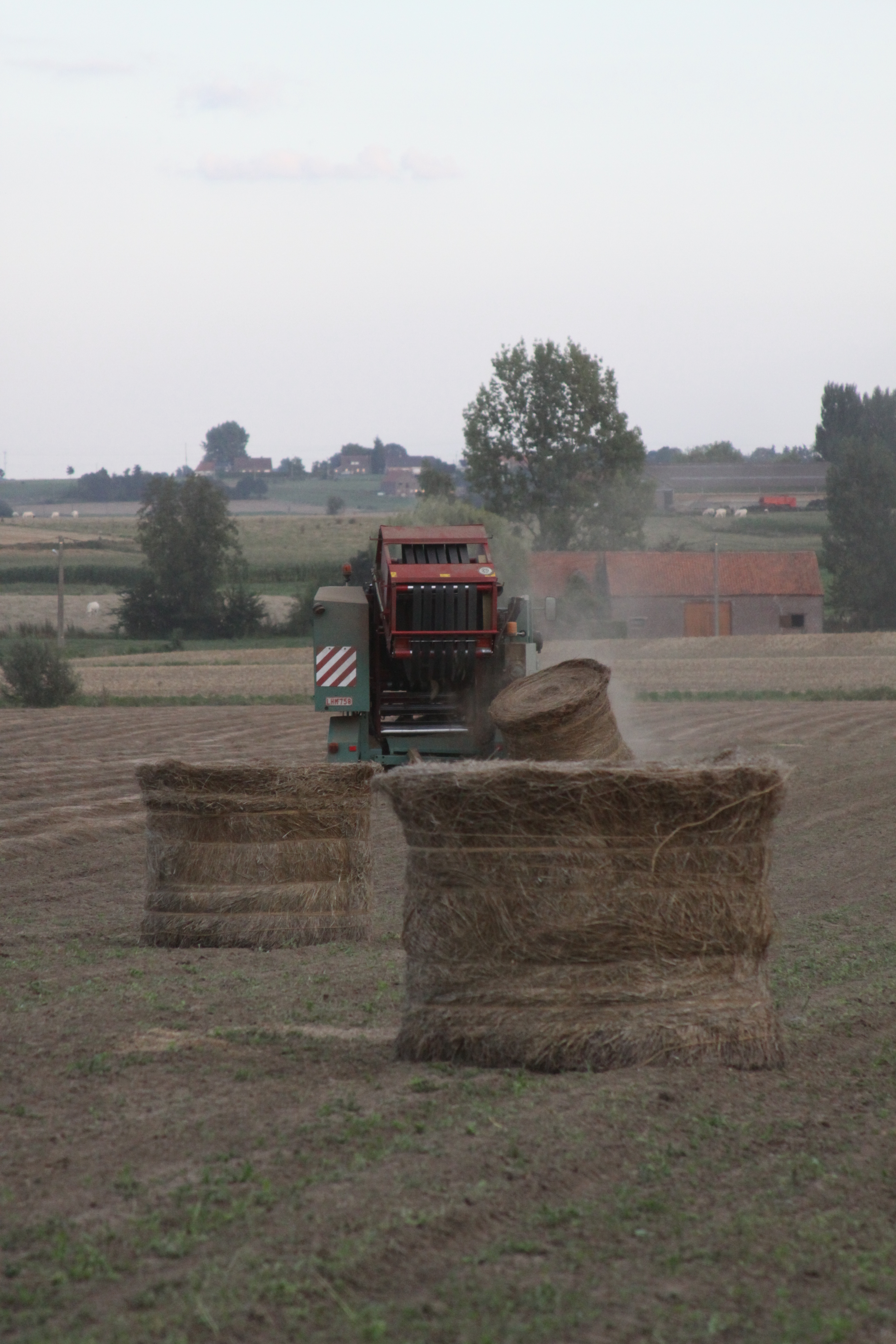 Mechanical harvesting of Flax in Molenbaix, Belgium. A round baler at work.